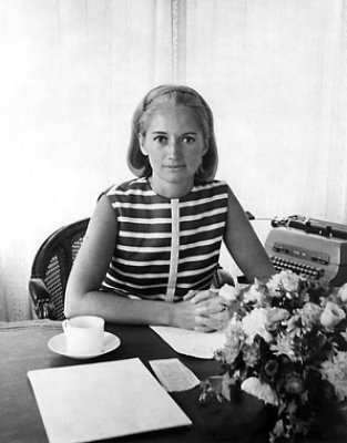 A 1969 Wells Rich Greene Agency file photo of Mary Wells Lawrence at her desk.